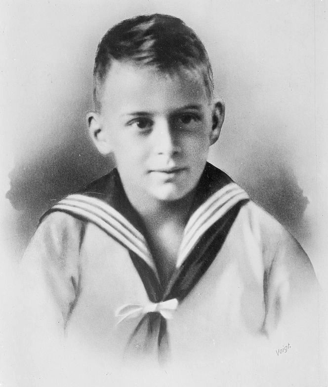 Prince Louis Ferdinand of Prussia